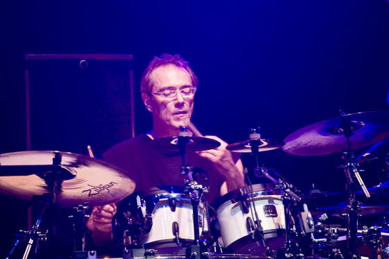 Drummer with Jeff Beck at the Palais, Melbourne, Australia 26th January 2009